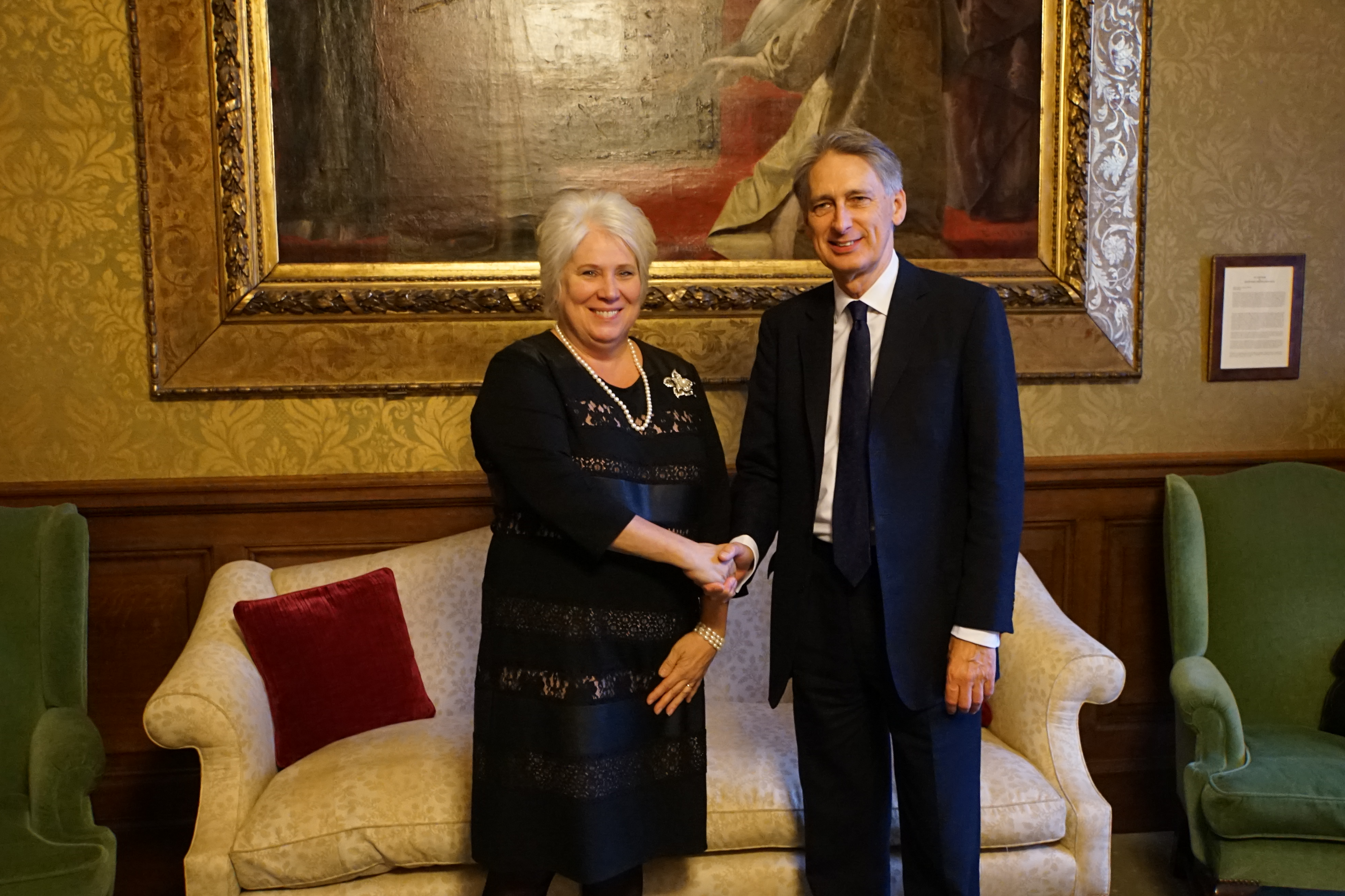 Foreign Minister Marina Kaljurand met with Foreign Secretary Philip Hammond in London 15.10.2015